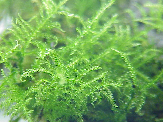 Species: Eurhynchium praelongum Family: ' Image No. 1